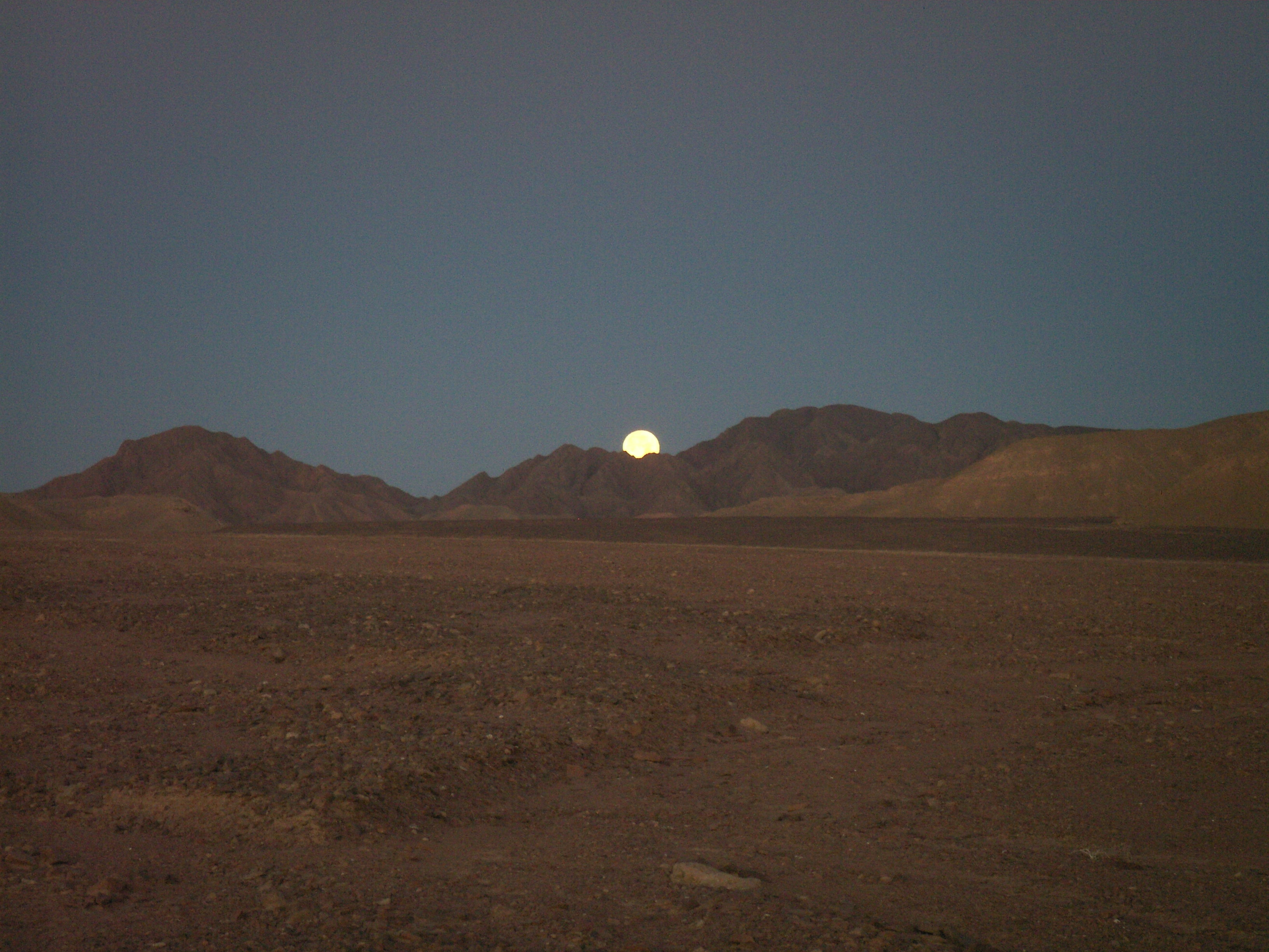 Desert near Port Safaga / Al-Qusair / Egypt / Red Sea.